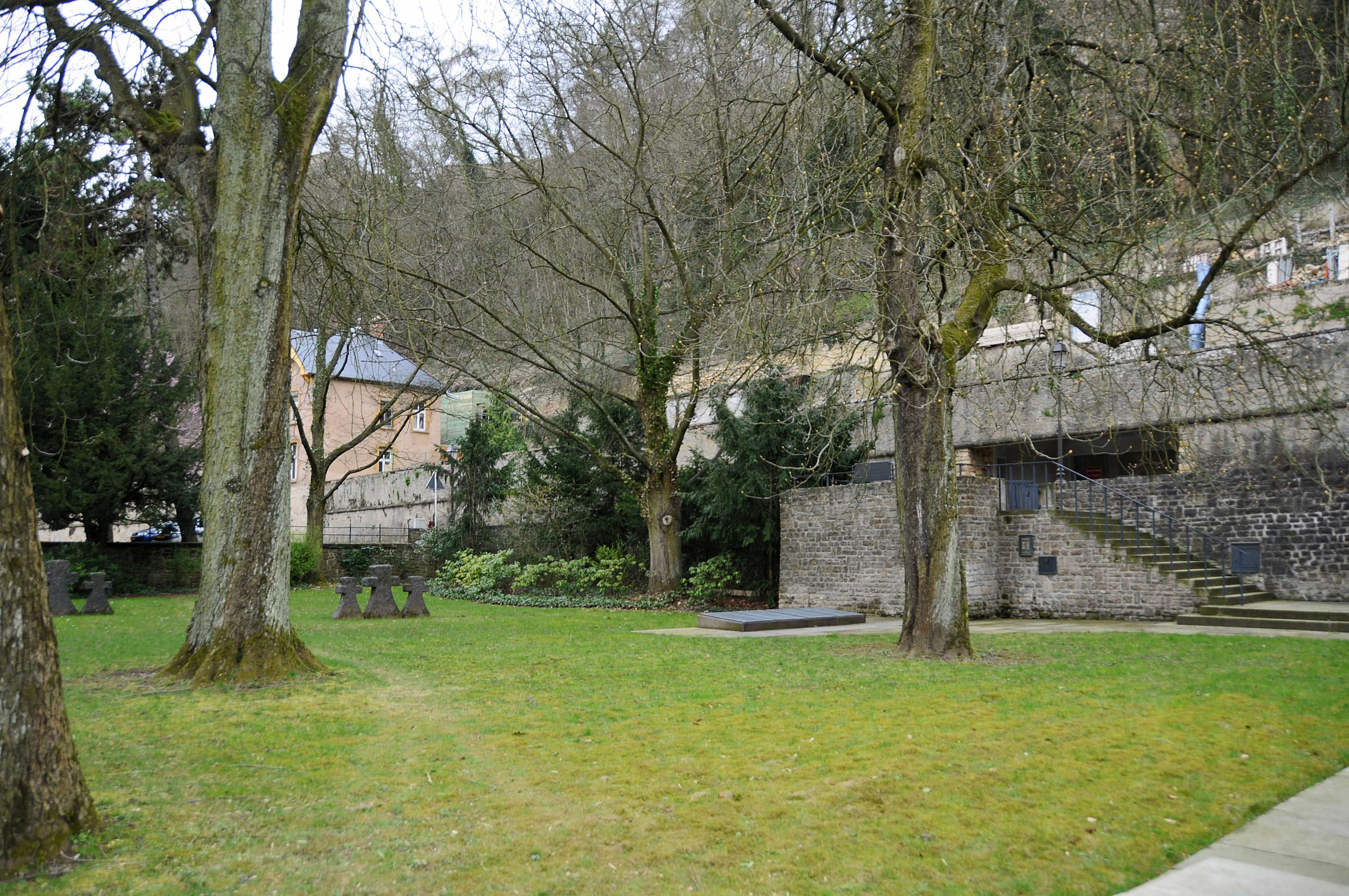 Luxembourg-Clausen: Ancient German military cemetery.